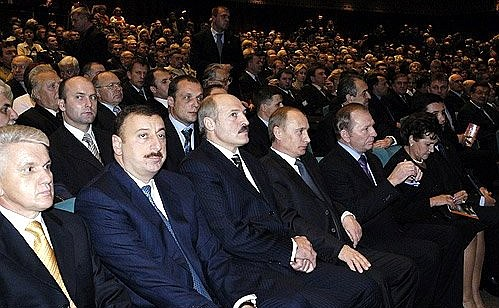 At the gala event in honour of the 60th anniversary of the liberation of Ukraine.